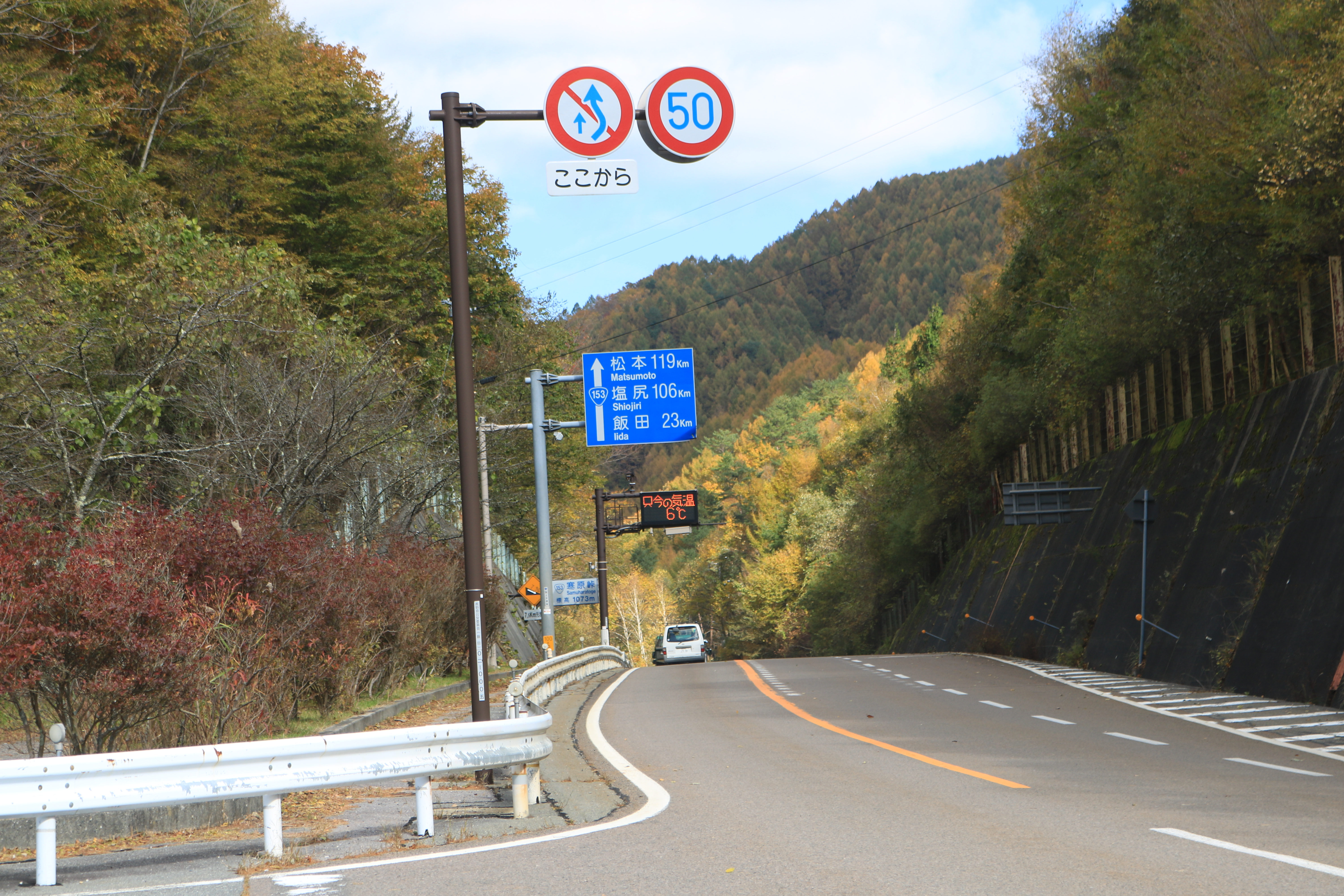 Samuhara Ridge of Route 153 in Namiai, Achi, Nagano Prefecture, Japan.